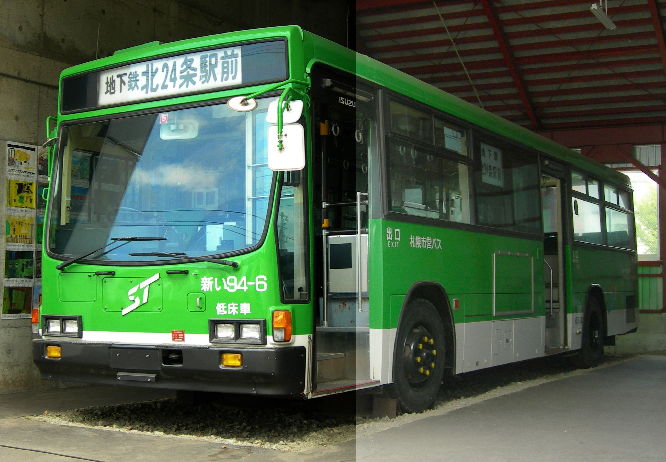 Sapporo municipal bus new color type bus.